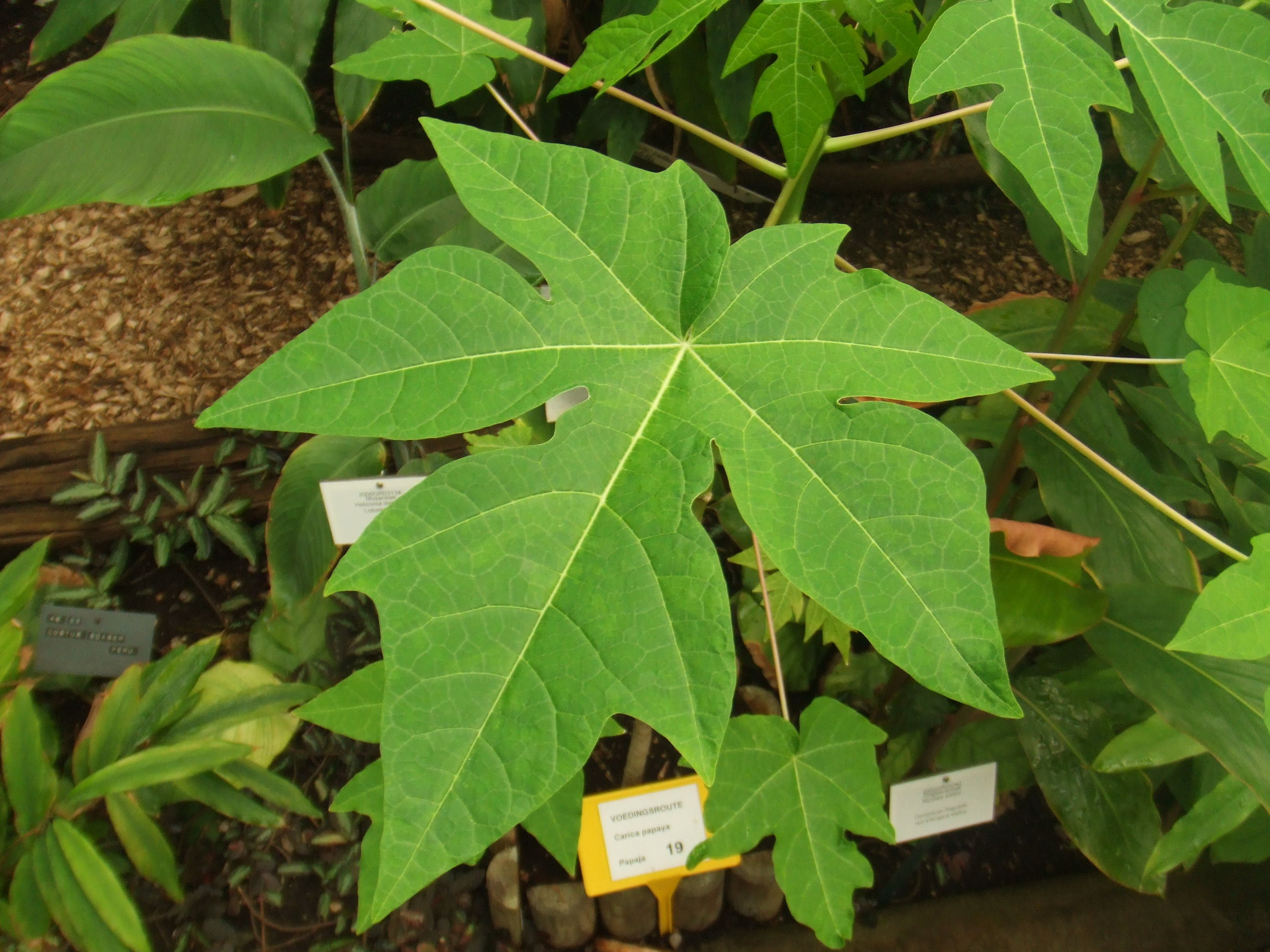 Carica papaya, picture taken at the Botanische tuin TU Delft in Delft, The Netherlands